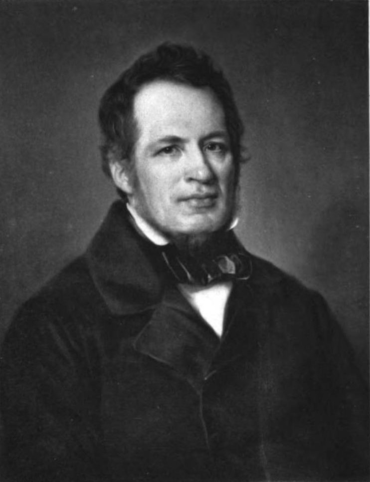 Portrait of Karl August Credner (1797-1857). Inscriptions below image: lower left -- «Trautschold gem.» (?), lower right -- «Meisenbach Riffarth & Co, Leipzig. hel.» (graphic art printing house)